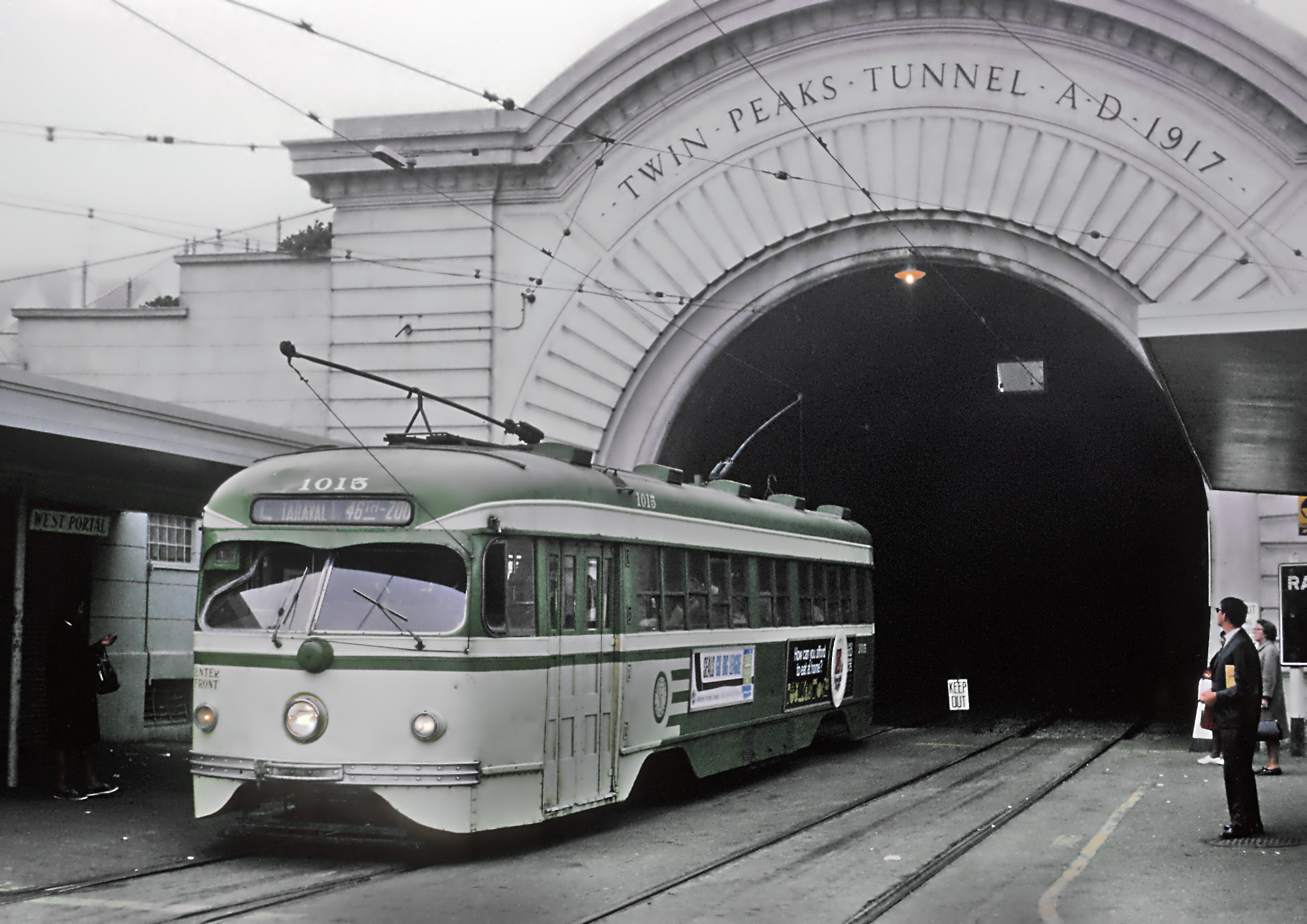 These photos were taken by Roger Puta on August 24, 1967. At that time San Francisco MUNI had some ex-double ended PCC in its fleet, i.e., they had been reworked into single ended cars. The cars were built by St. Louis Car Co. in 1948. Note that the doors are at the corners as opposed to at the front and middle for a single-ended PCC. Car 1014 is showing its new rear end, sans headlight and roll sign. MUNI PCC 1015, a L TARAVAL 46th - ZOO car at the West Portal of Twin Peaks Tunnel. This file comes from the Roger Puta collection, which passed to Mel Finzer. They were scanned and posted by Marty Bernard, are in the Public Domain. Attribution to "Roger Puta" is not required for a PD image, but should be done as a matter of courtesy to a major Commons contributor. Mel Finzer, the heirs of this work's copyright holder (usually the creator) have released it into the public domain. This applies worldwide. In some countries this may not be legally possible; if so: The heirs of the creator grant anyone the right to use this work for any purpose, without any conditions, unless such conditions are required by law. See This work is free and may be used by anyone for any purpose. If you wish to use this content, you do not need to request permission as long as you follow any licensing requirements mentioned on this page.